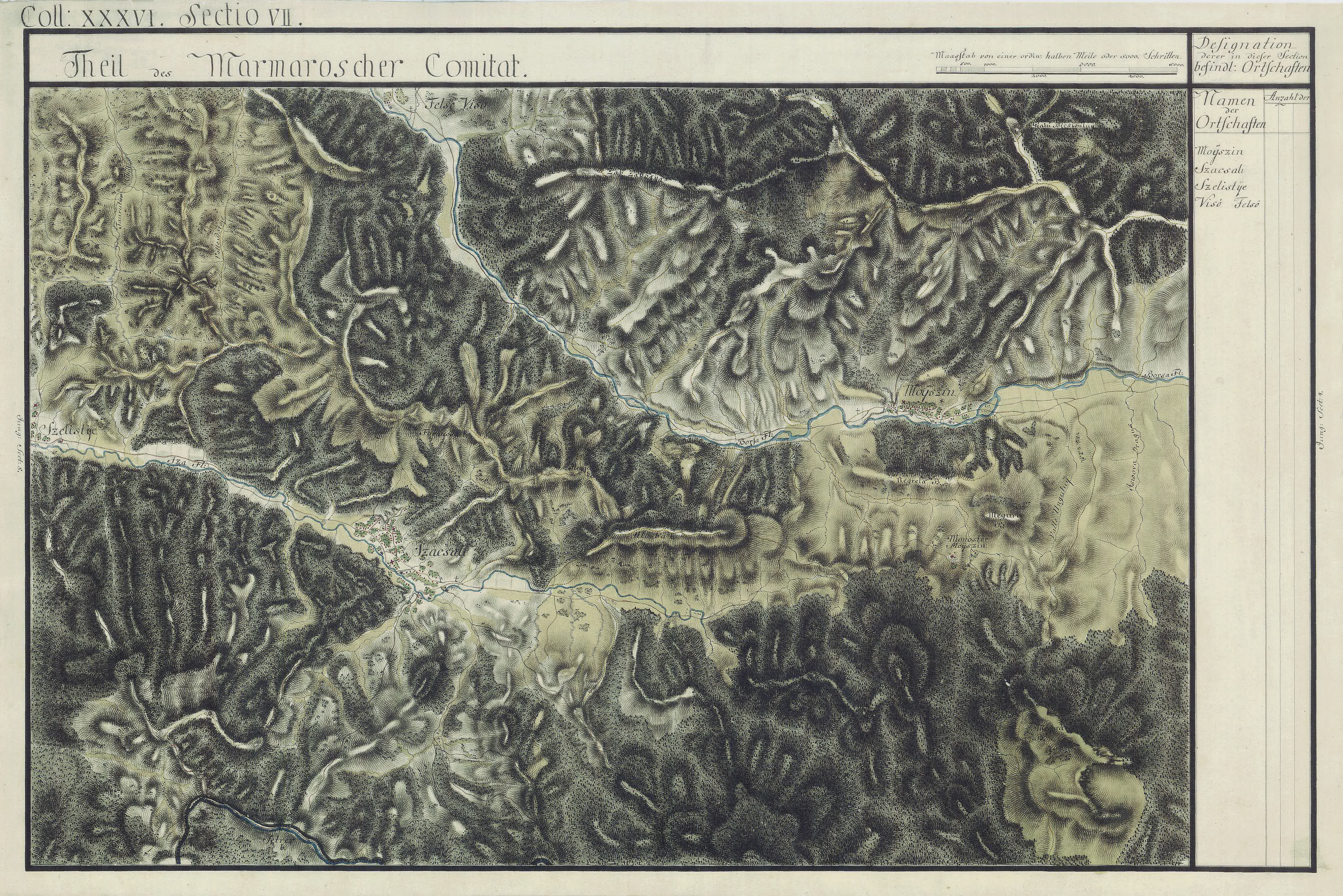 Maramureş County, 1769-1773. Josephinische Landesaufnahme pg.36-07